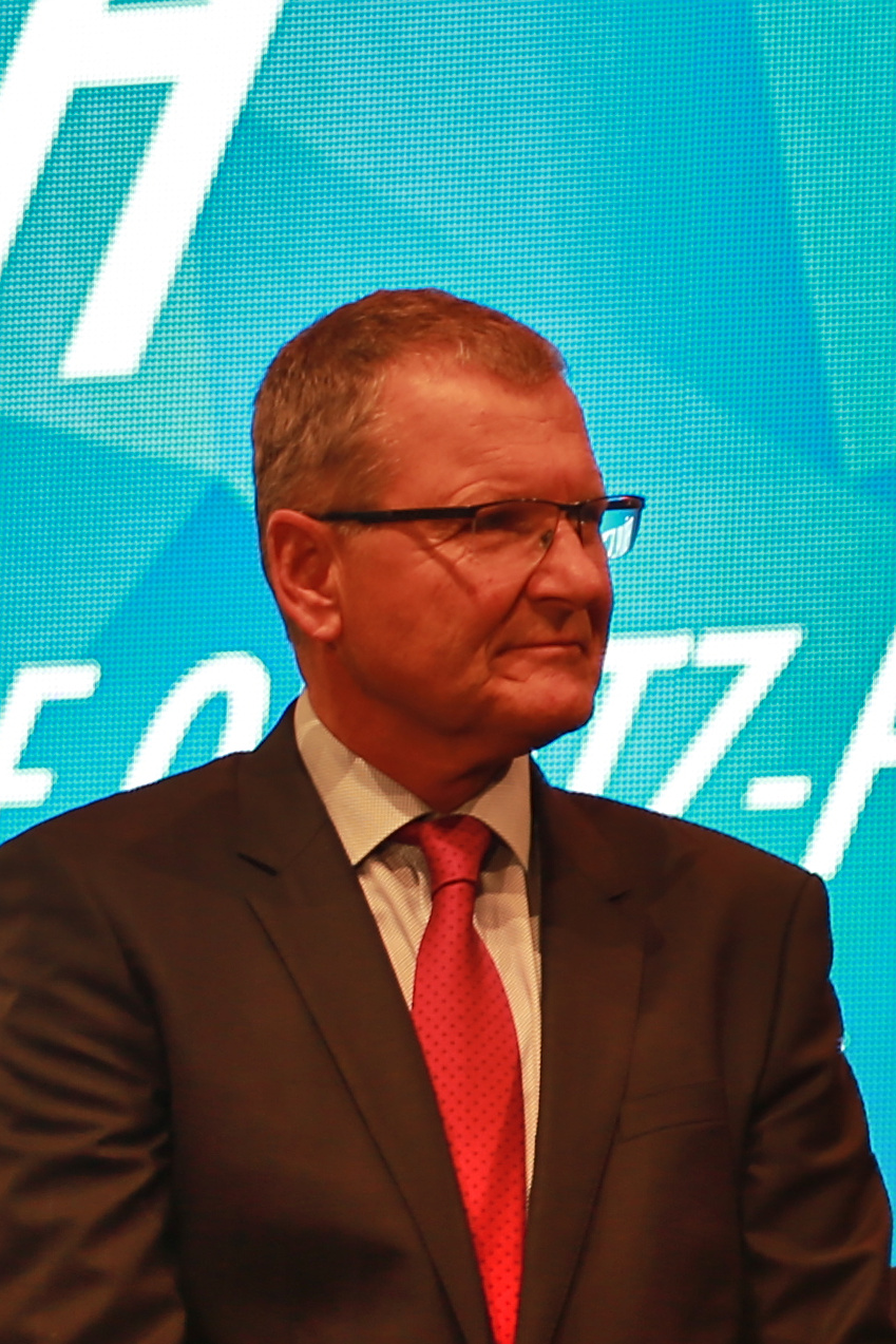 Andreas Ermacora at opening ceremony of Climbing World Championships 2018 in Innsbruck.